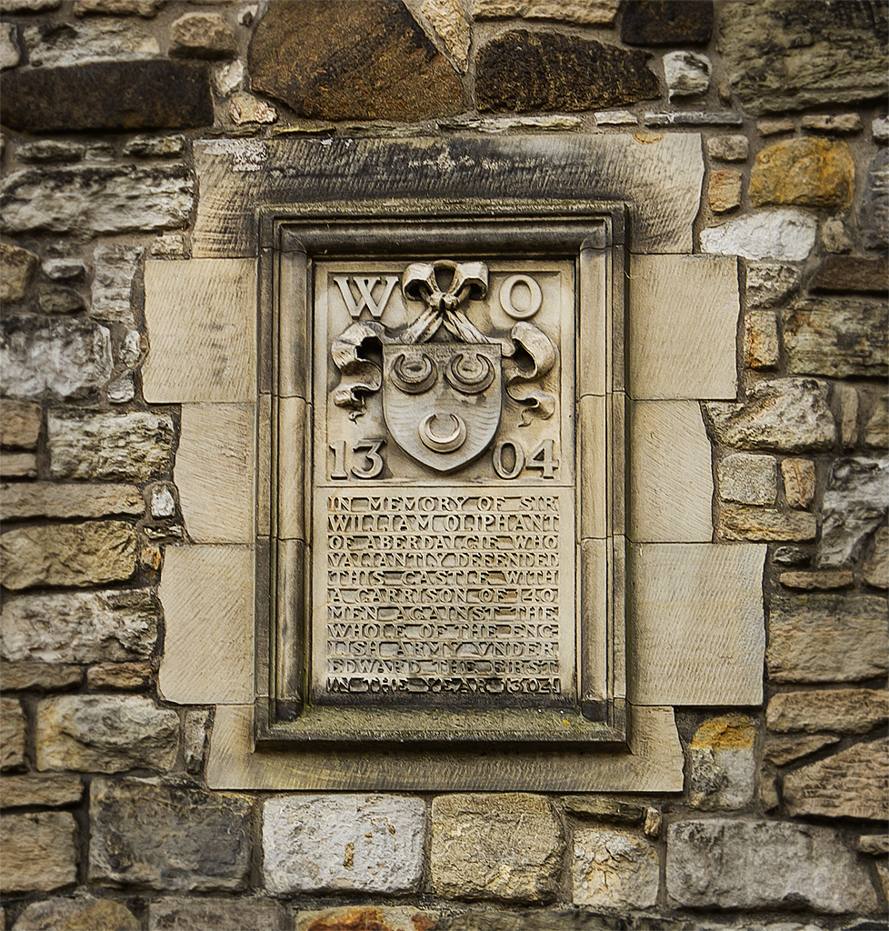 The memorial reads: "IN MEMORY OF SIR WILLIAM OLIPHANT OF ABERDALGIE WHO VALIANTLY DEFENDED THIS CASTLE WITH A GARRISON OF 140 MEN AGAINST THE WHOLE OF THE ENGLISH ARMY UNDER EDWARD THE FIRST IN THE YEAR 1304" Sir William Oliphant was captured by the English Army in 1296, released and became Constable of Stirling Castle where he resisted the English army, but finally surrendered and was imprisoned again. On his release, he accepted the Governorship of Perth under the English occupation from Edward II. He was subsequently captured by the Scots and sent into exile by Robert the Bruce. He rejoined the Scottish army in 1313, and was given land and titles by King Robert. In 1320, he was one of the signatories of the Declaration of Arbroath. His tomb is in Aberdalgie Church (in a small village near Perth).